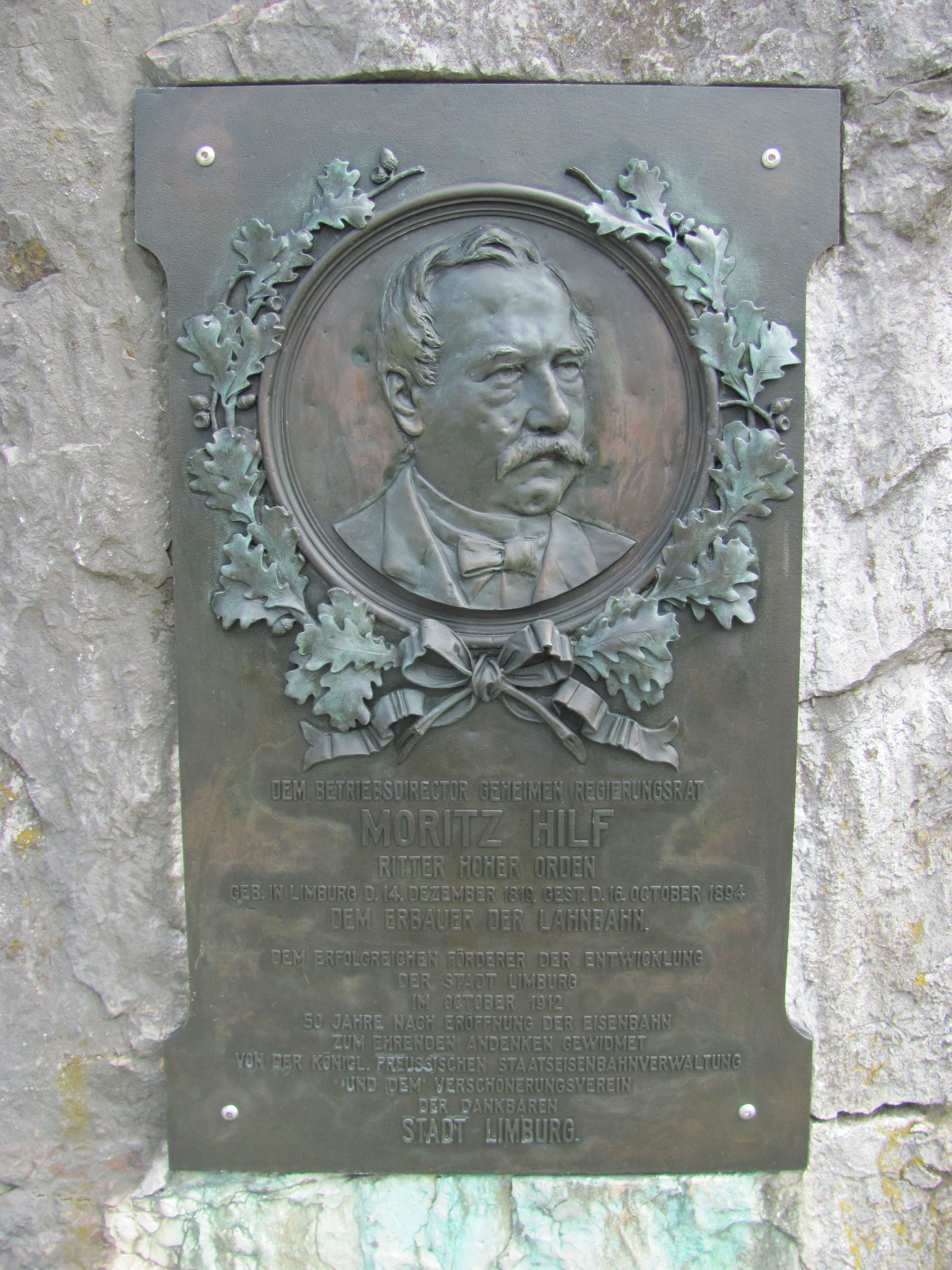 Moritz Hilf (Memorial in front of Limburg [Hesse] railway station)